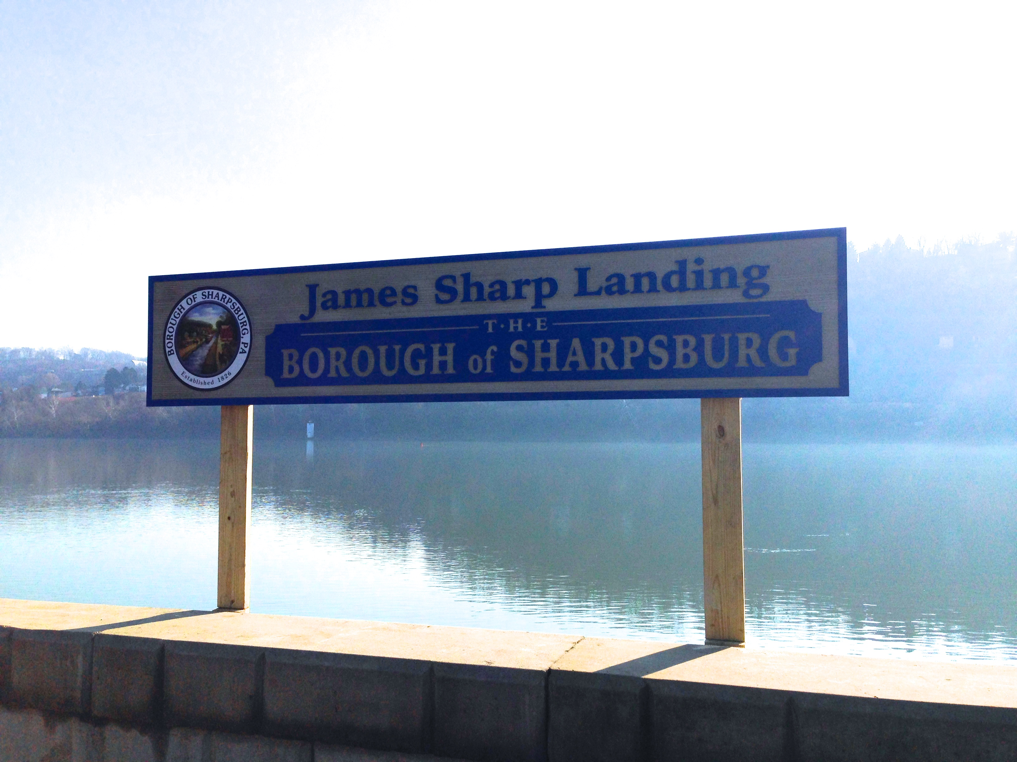 James Sharp Landing.